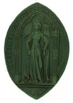 Blanche of Artois